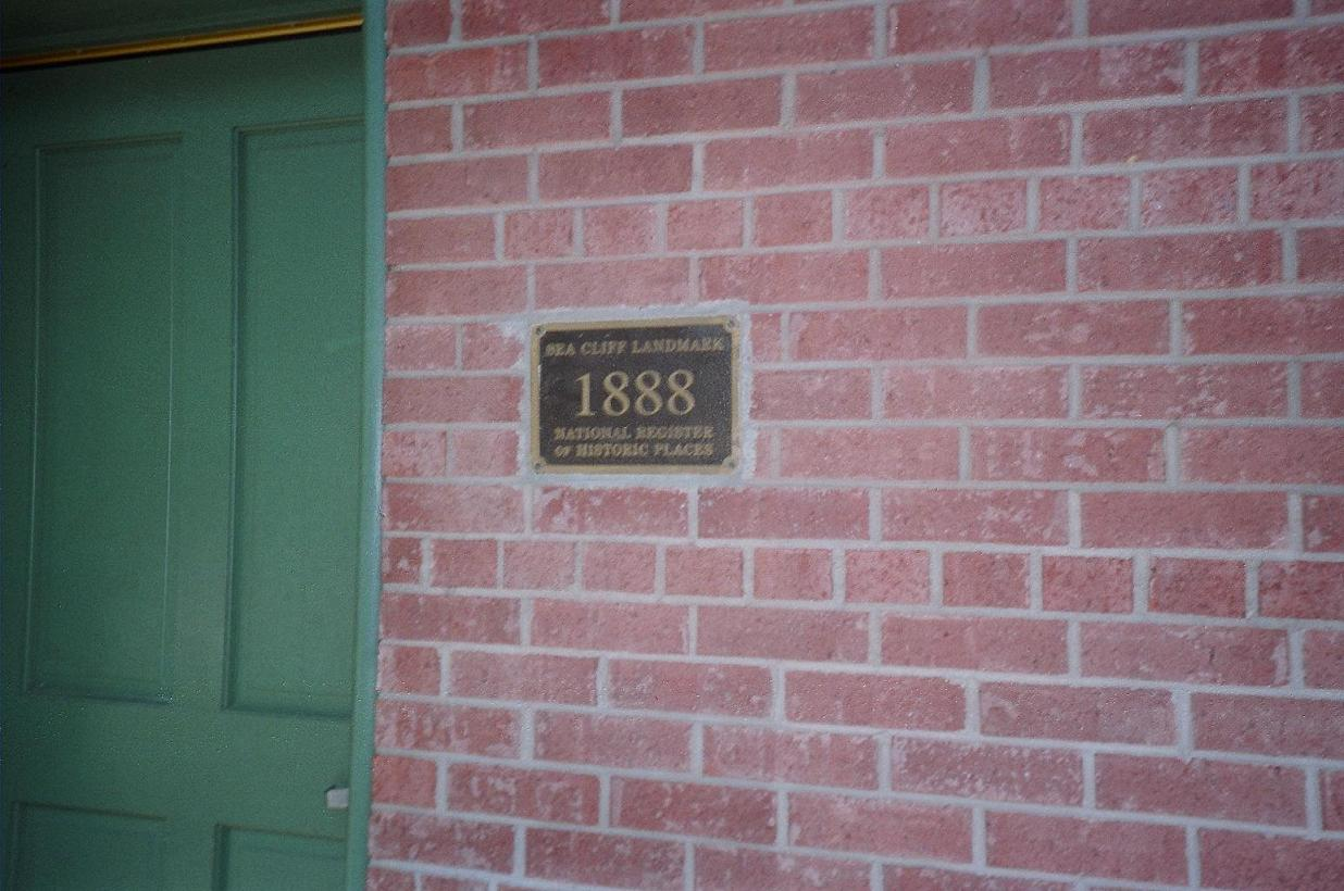 Historic plaque on the 1888-rebuilt Sea Cliff (LIRR station) in the City of Glen Cove, New York. This station is listed on the National Register of Historic Places. Originally posted in Wikipedia as Image:Sea Cliff LIRR Station-NRHP.JPG on May 14, 2008.